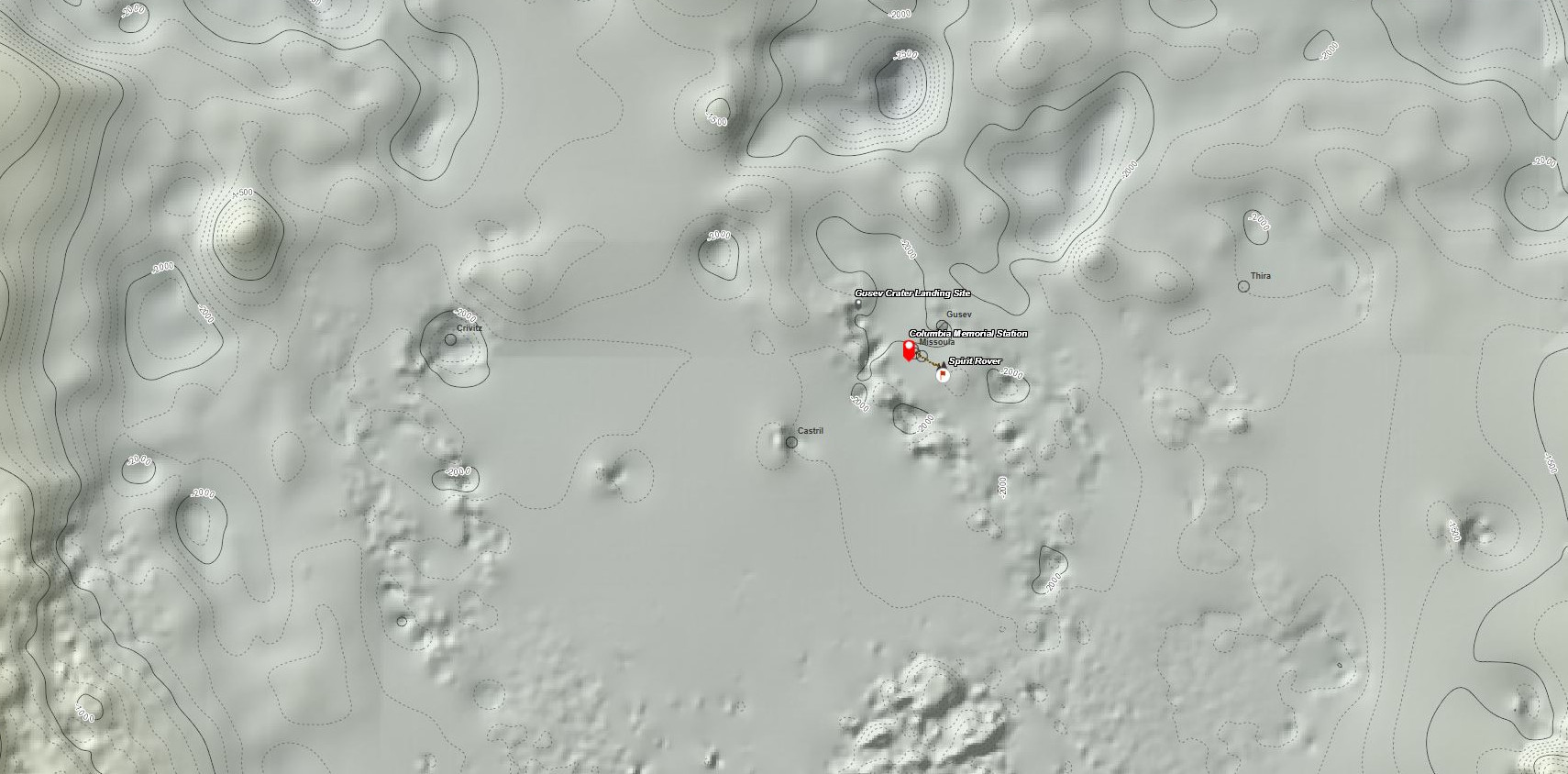 A topographic map created using Mars Orbiter Laser Altimeter (MOLA) data. This map show the relative elevation in 100 meter elevation contour lines (dashed) and 500 meter elevation contour lines (bold) with a total elevation uncertenty of +/- 6 meters.